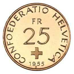 unrealised 25 CHF coin 1955 reverse